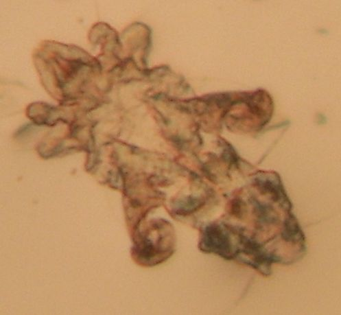 mouse mite (presumably Myocoptes musculinus)